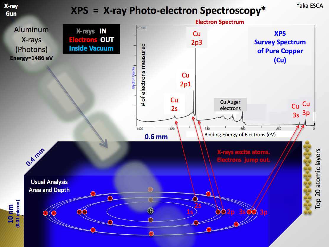 This schematic depicts the process known as the "Photo-electric Effect" as it pertains to XPS.